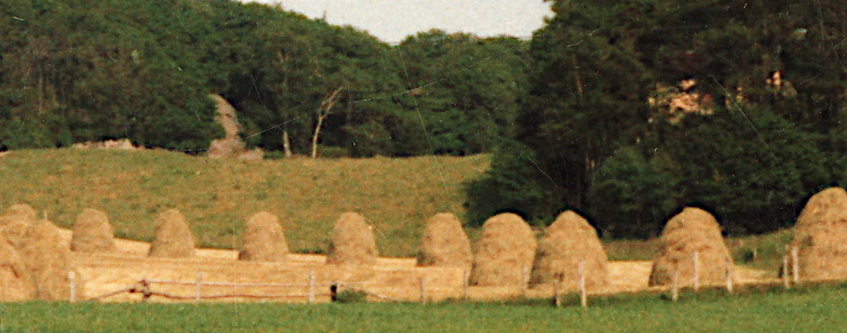 Drying hay on ryttarehässjor, in western Sweden (Lindome, south of Göteborg), mid-1987.